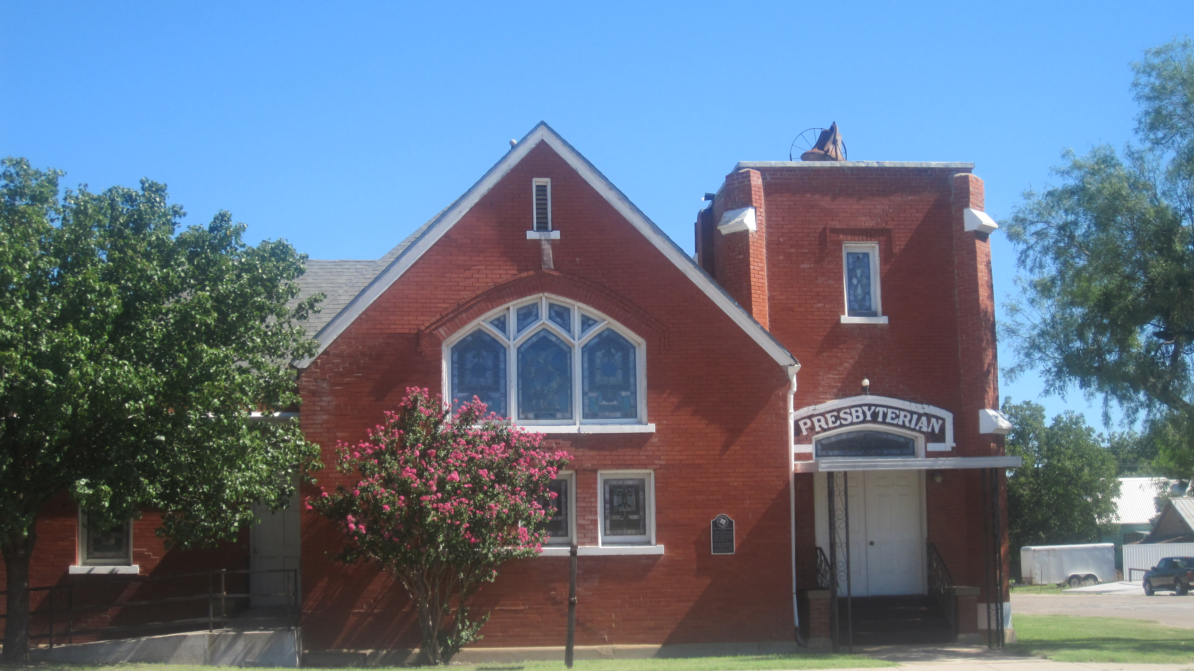 I took photo in Baird, TX, with Canon camera.